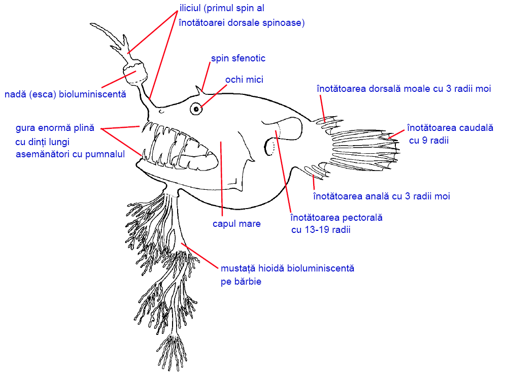 Linophryne arborifera